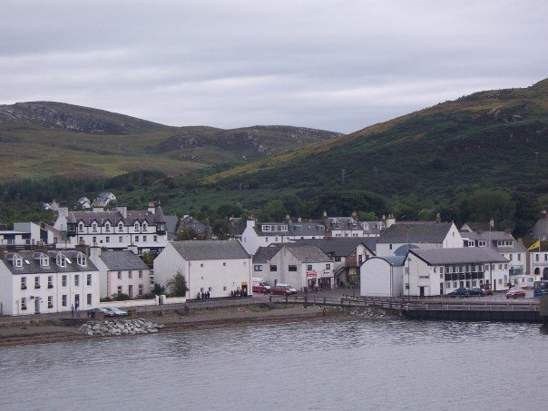 Ullapool from ferry 2